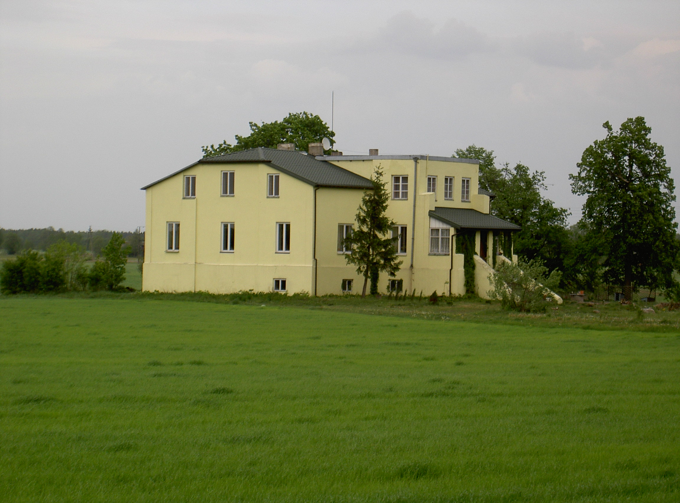 Current status of the former landlord of Olszowa (Lodz voivodship, Poland) Boleslaw Malcz's house.